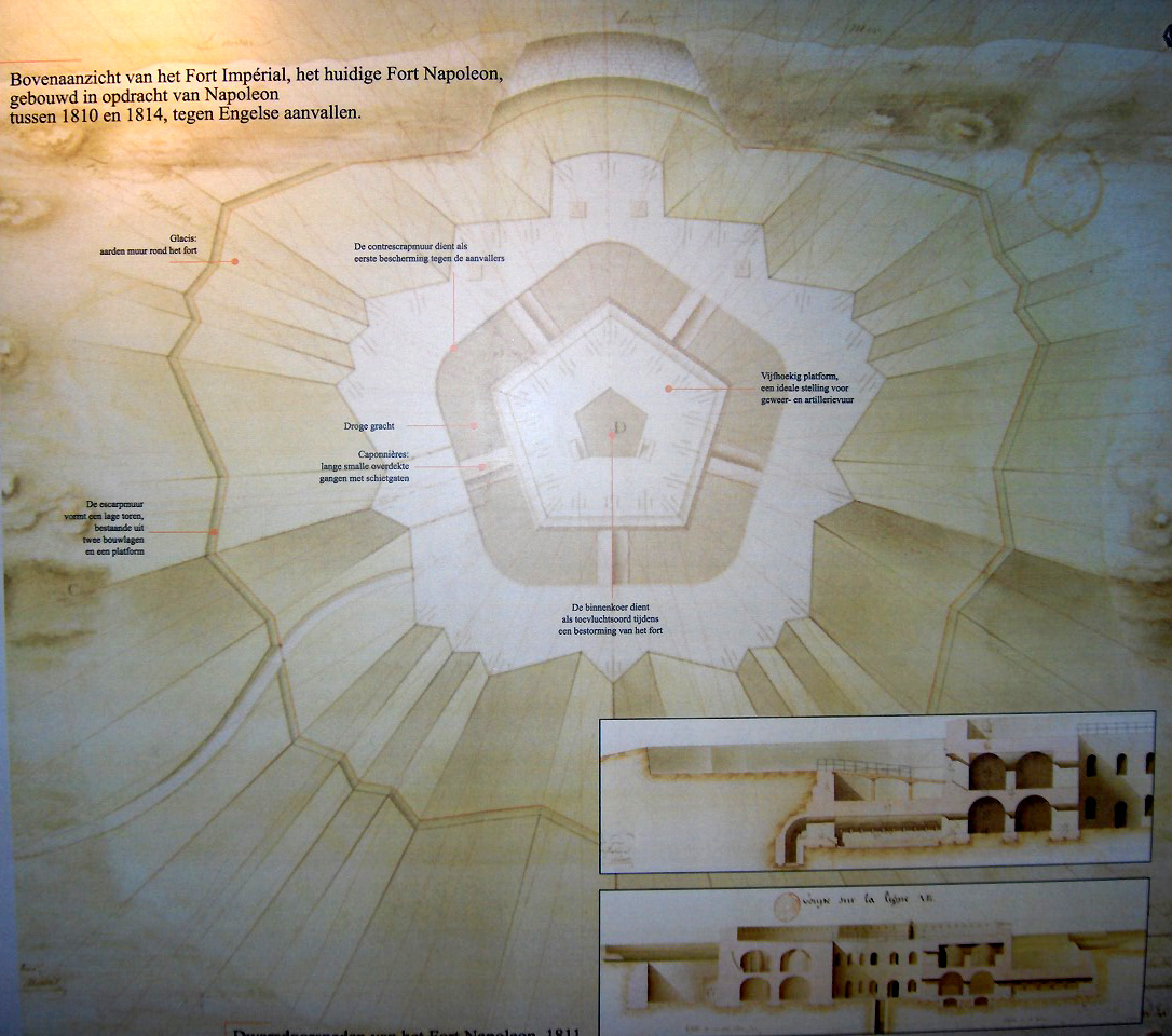 Schematic map of Fort Napoleon - Ostend, Belgium